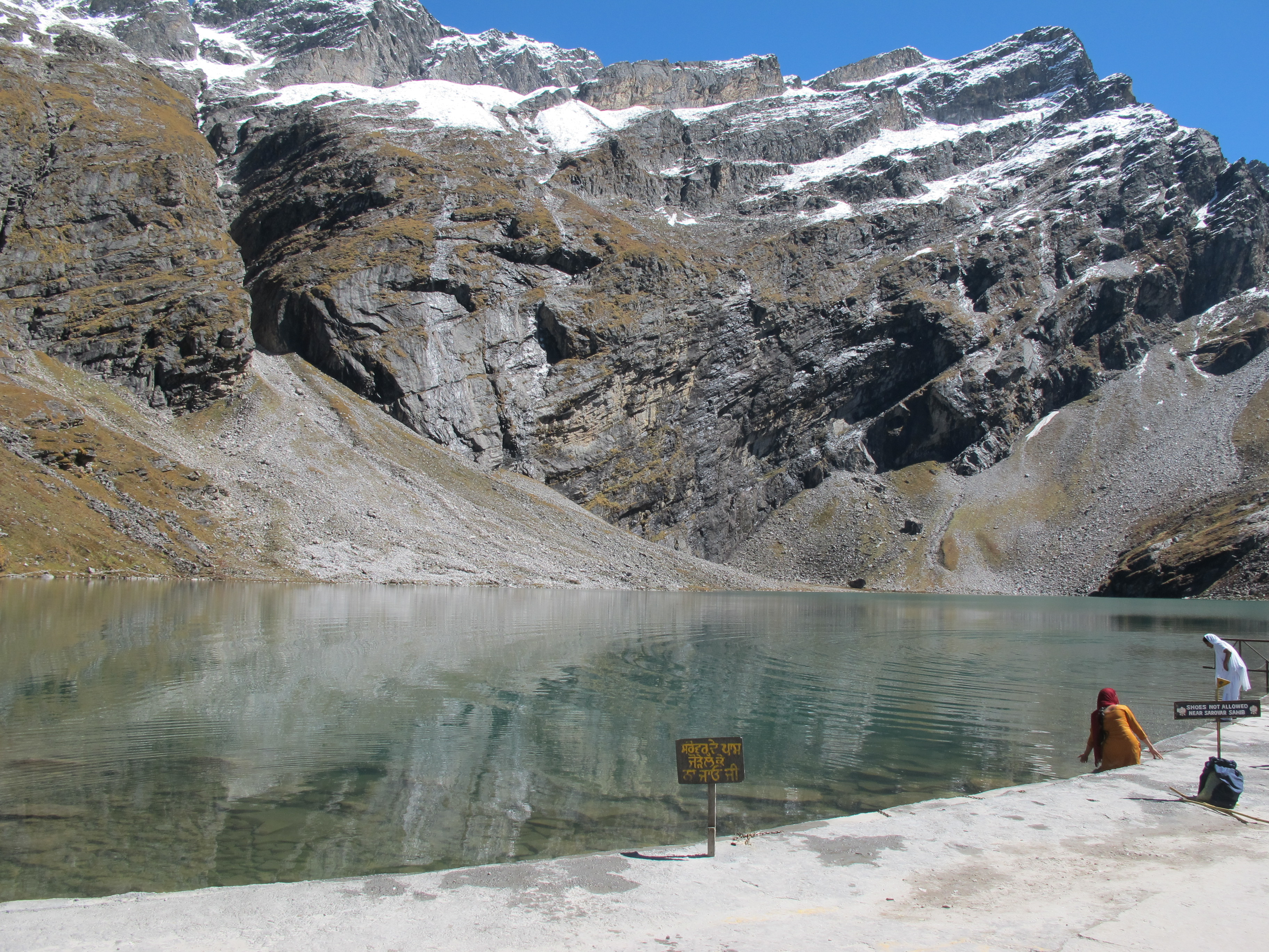 Hemkund Lake, Spetember